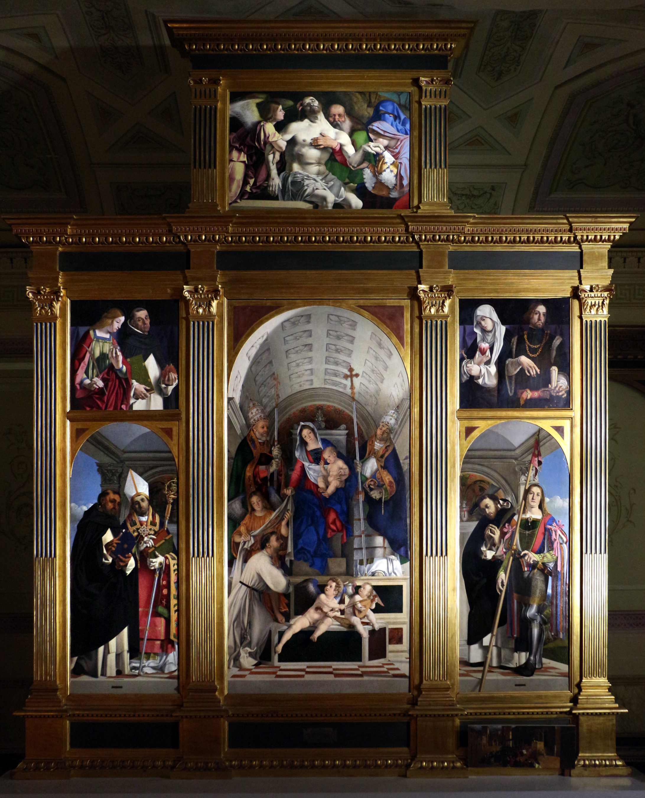 Recanati Altarpiece by Lotto